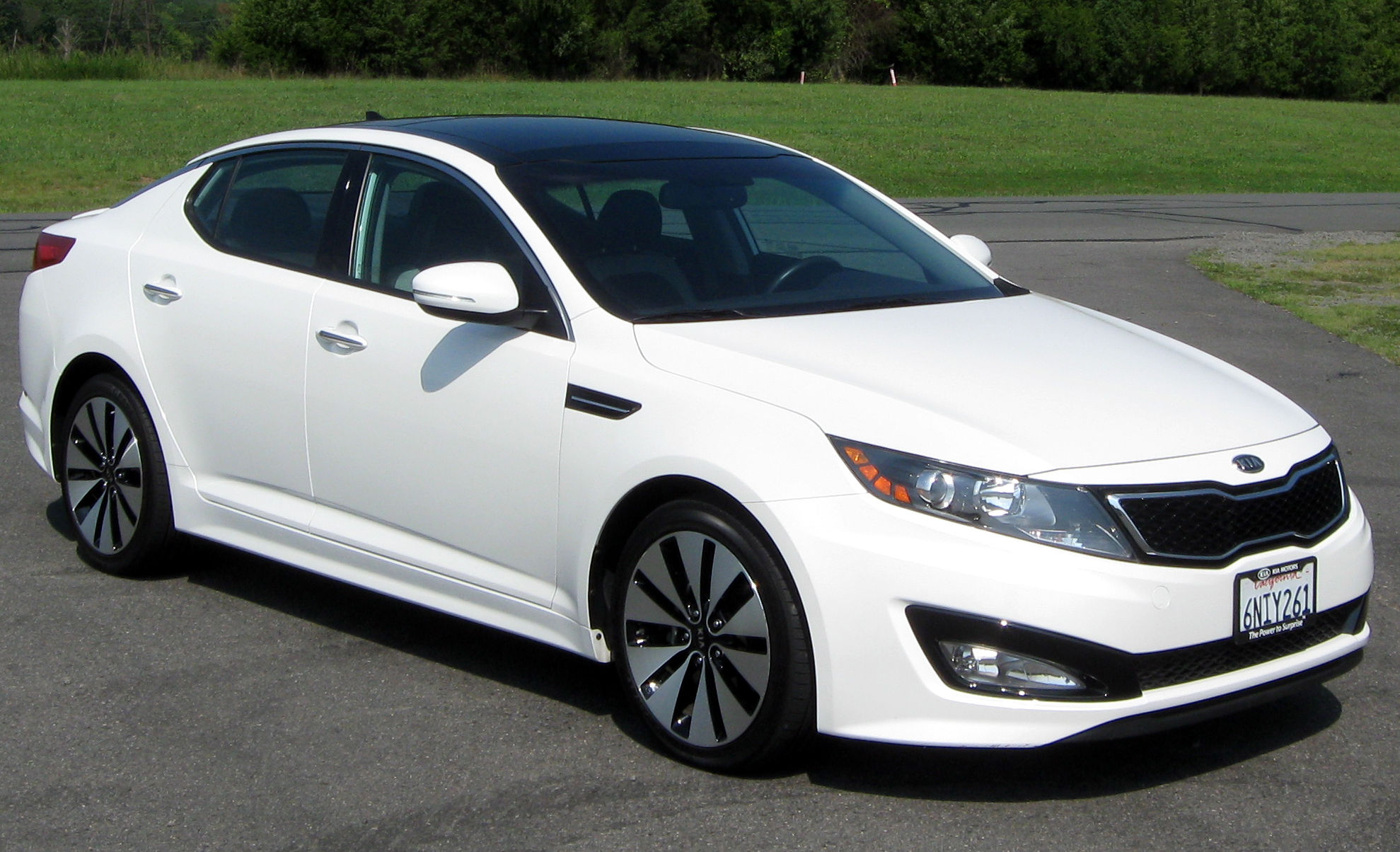 2011 Kia Optima photographed in Centreville, Virginia, USA.